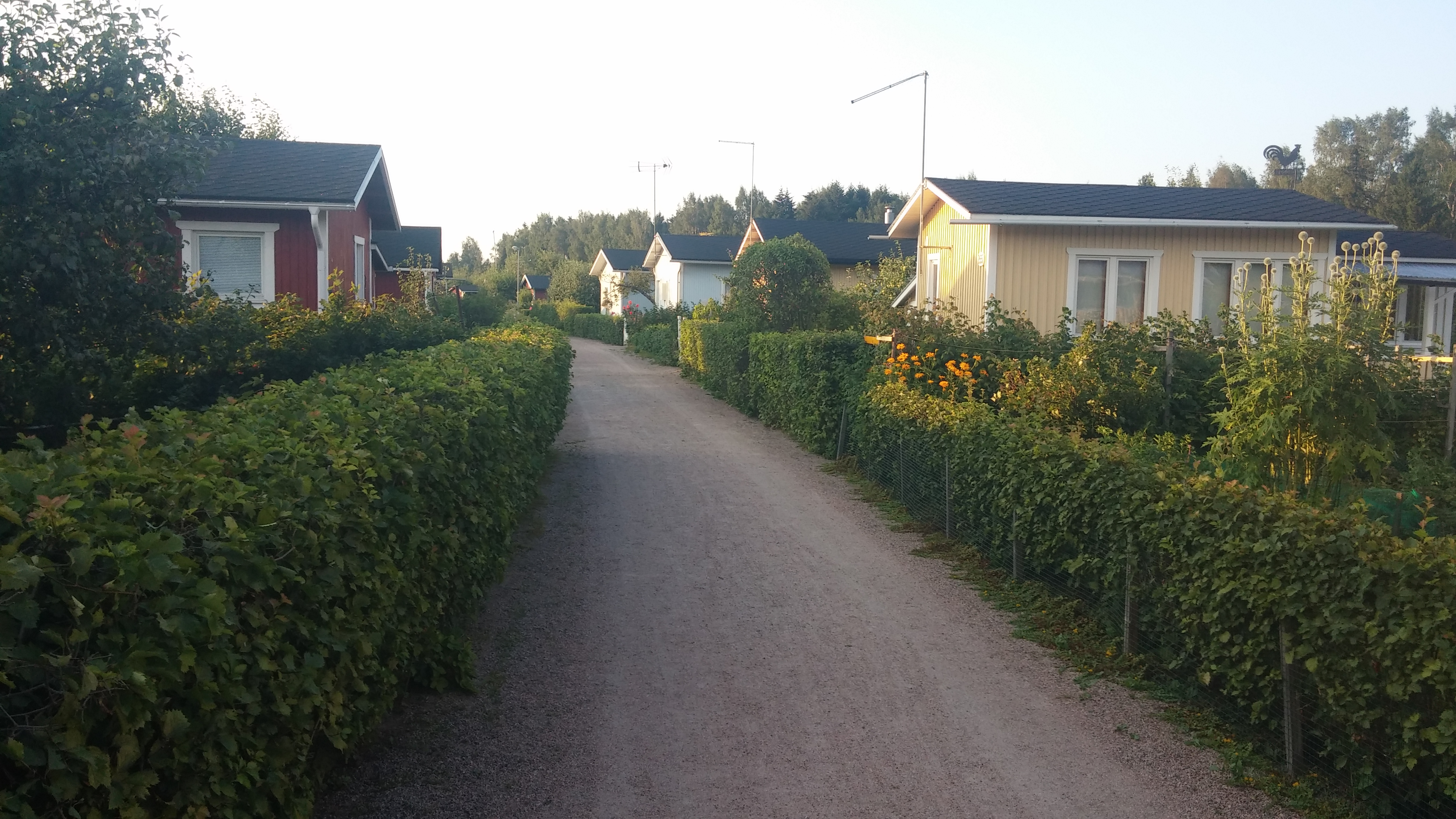 Oulunkylän siirtolapuutarha is an allotment garden in Helsinki, Finland.